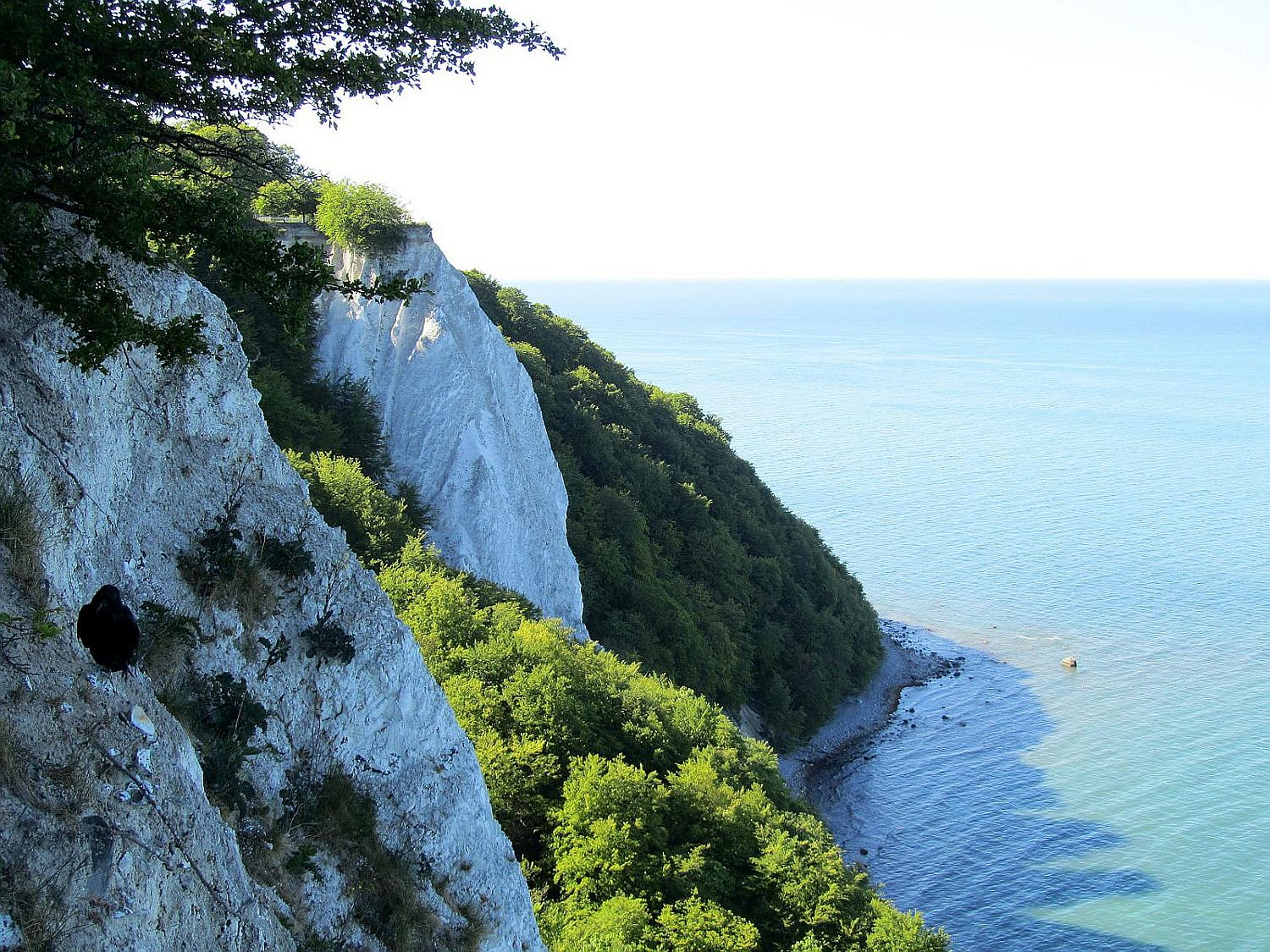 Chalk cliffs in the Jasmund National Park, Germany / Rügen